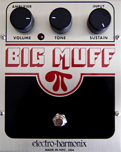 Electro-Harmonix Big Muff Pi Re-Issue NYC Edition